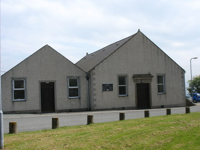 Capel Carmel, Moelfre Moelfre is rather unusual in that it has only one Nonconformist chapel, the Congregational Capel Carmel, and an Anglican chapel of ease. The Calvinist chapel and the parish church are both out in the countryside at Llangallo, a mile or more up a steep hill. Carmel dates from 1872 having been built on the site of an 1827 chapel. A vestry stands along side. Additional services in English are held in July and August for, as the old preachers used to say, "the benefit of our Inglish friends"